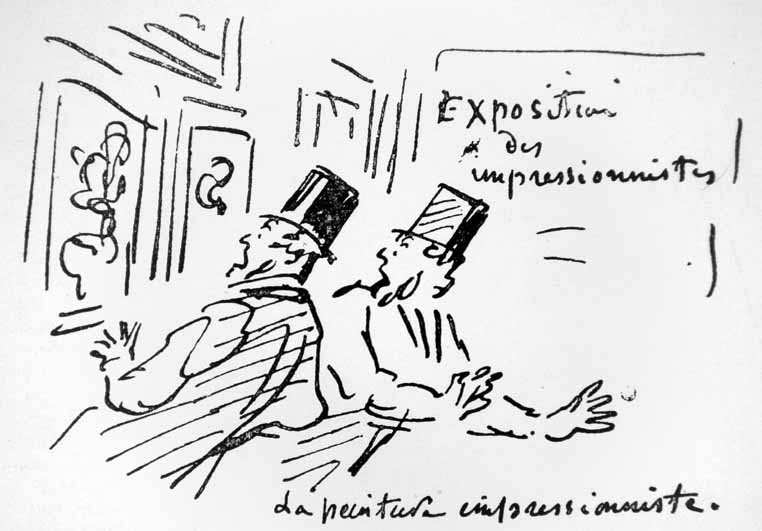 CHAM 1874 - Caricature on Impressionism, on occasion of their first exhibit. French comment says ~: "[...] they started by terrifying everyone." (La peinture impressionniste Une révolution en peinture et qui débute en faisant de la terreur)